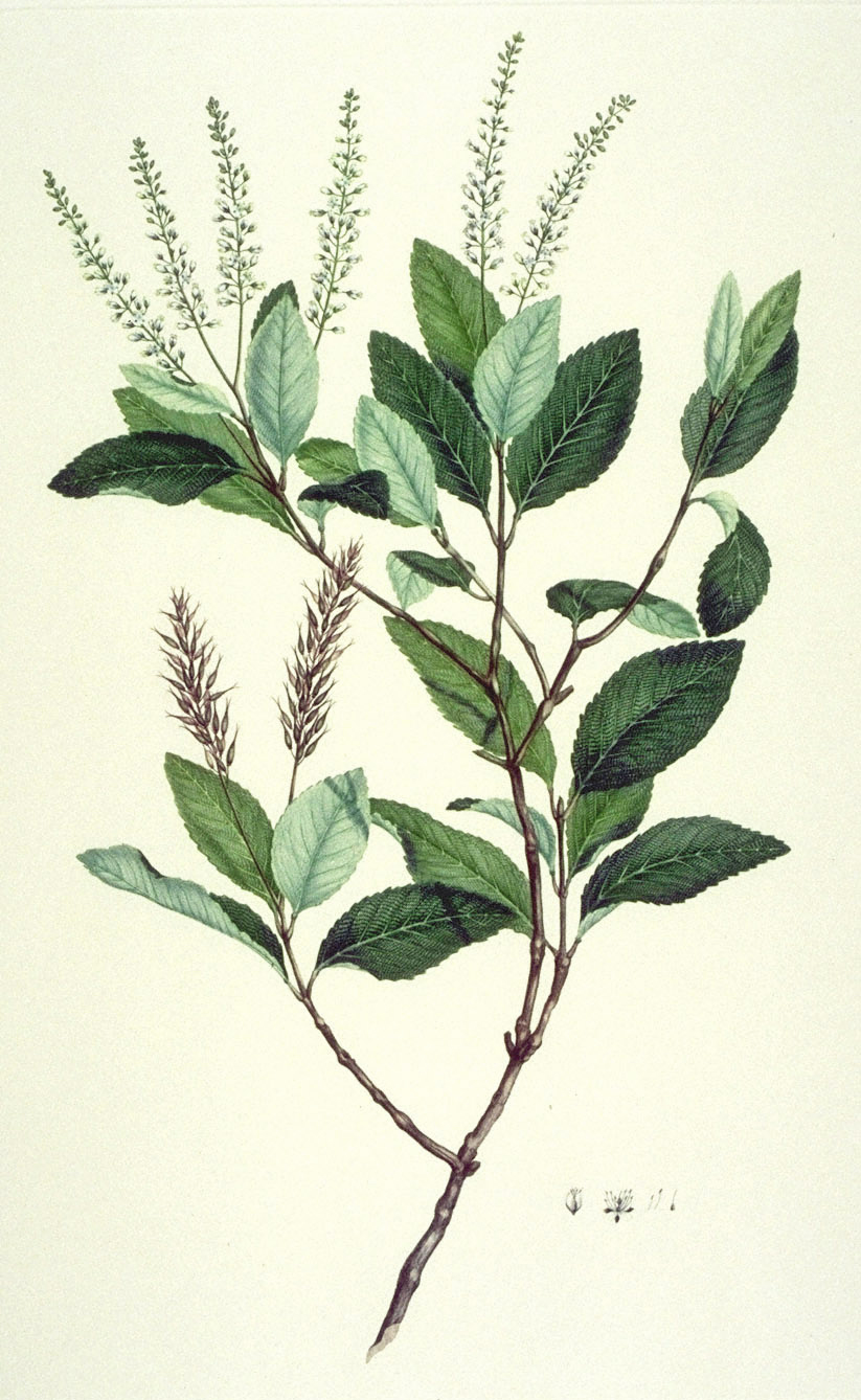 Weinmannia racemosa, Cunoniaceae. Common name: Kāmahi, endemic to New Zealand. Coloured Engraving, Ink And Watercolours On Paper